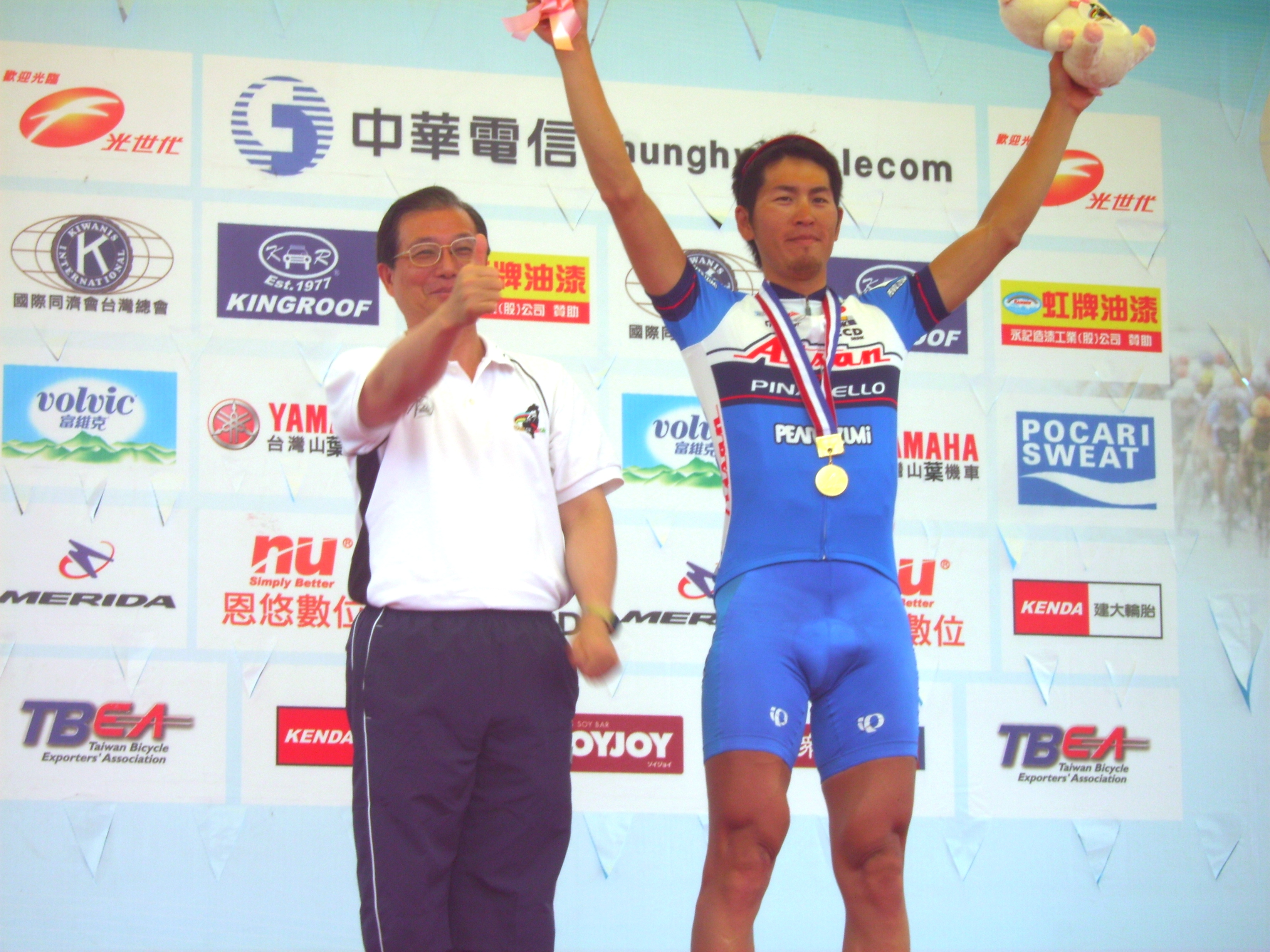 Tour de Taiwan 2007: Japan Aisan Racing Team cyclist Satoshi Hirose (right) is the winner of the 7th Stage (Taipei City Criterium), he received the stage champion award from Commissioner of Department of Education, Taipei City Government Ching-Ji Wu (left).